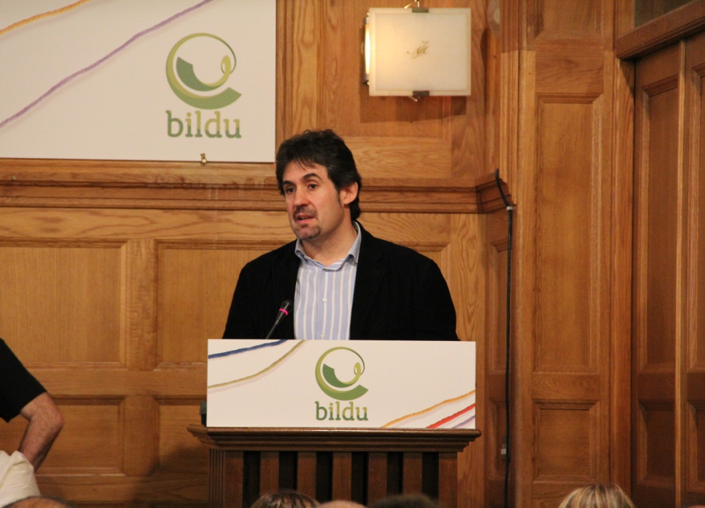 Pello Urizar presenting Bildu